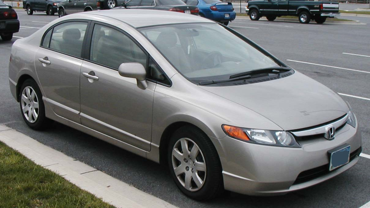 2006 Honda Civic LX sedan photographed in USA.